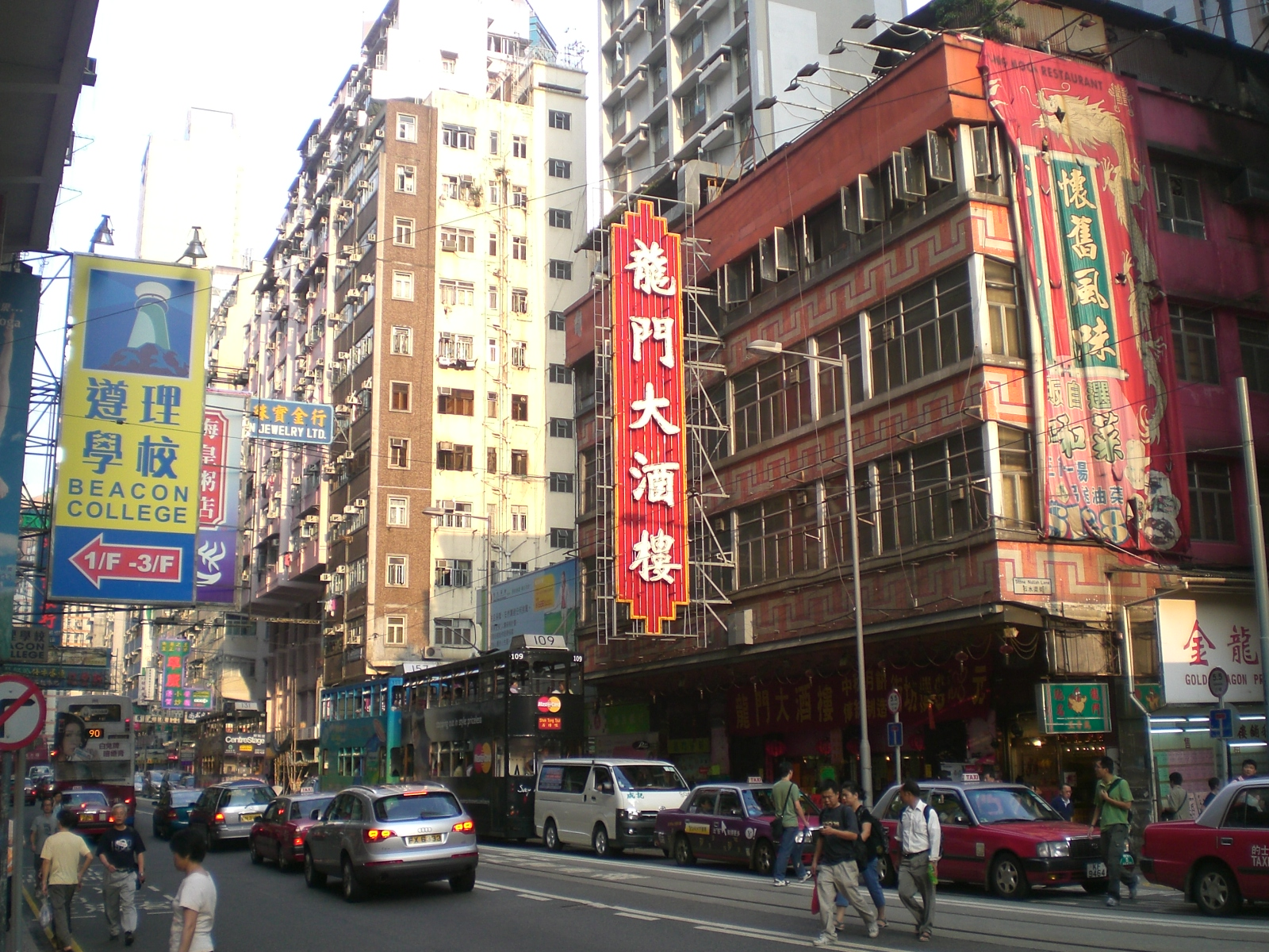 A view of Johnston Road near the Wan Chai (MTR)